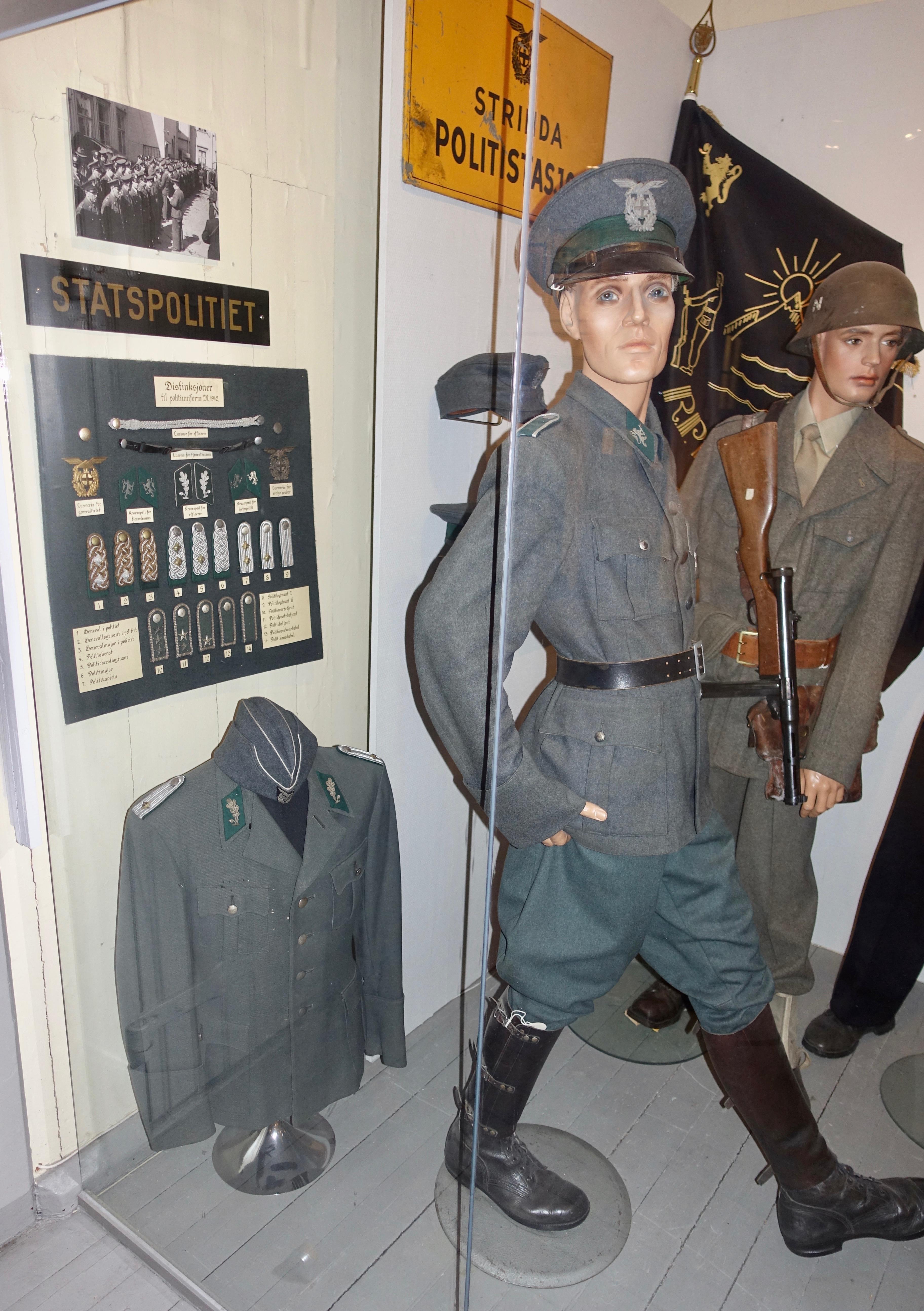 Norwegian police uniforms during and after World War II: Konstabel of the "Statspolitiet, Norwegian police supporting the Nazi regime 1941-1945, in German inspired uniform model 1942. Wall signs for "Strinda politistasjon" and "Statspolitiet". State emblem (lesser Norwegian coat of arms) of the Statspolitiet with suncross/sunwheel and eagle of Nazi party Nasjonal Samling (NS). Insignia and rank distinction on wall chart. Also military police of the Polititroppene/Reservepolitiet", Norwegian police troops in Sweden 1944-45. Police banner in the corner, etc.Flash Photo taken on March 7th, 2019 at the exhibition on the German occupation of Norway during World War II 1940 – 1945 at the Norwegian National Museum of Justice (Norwegian: Justismuseet) in Trondheim.